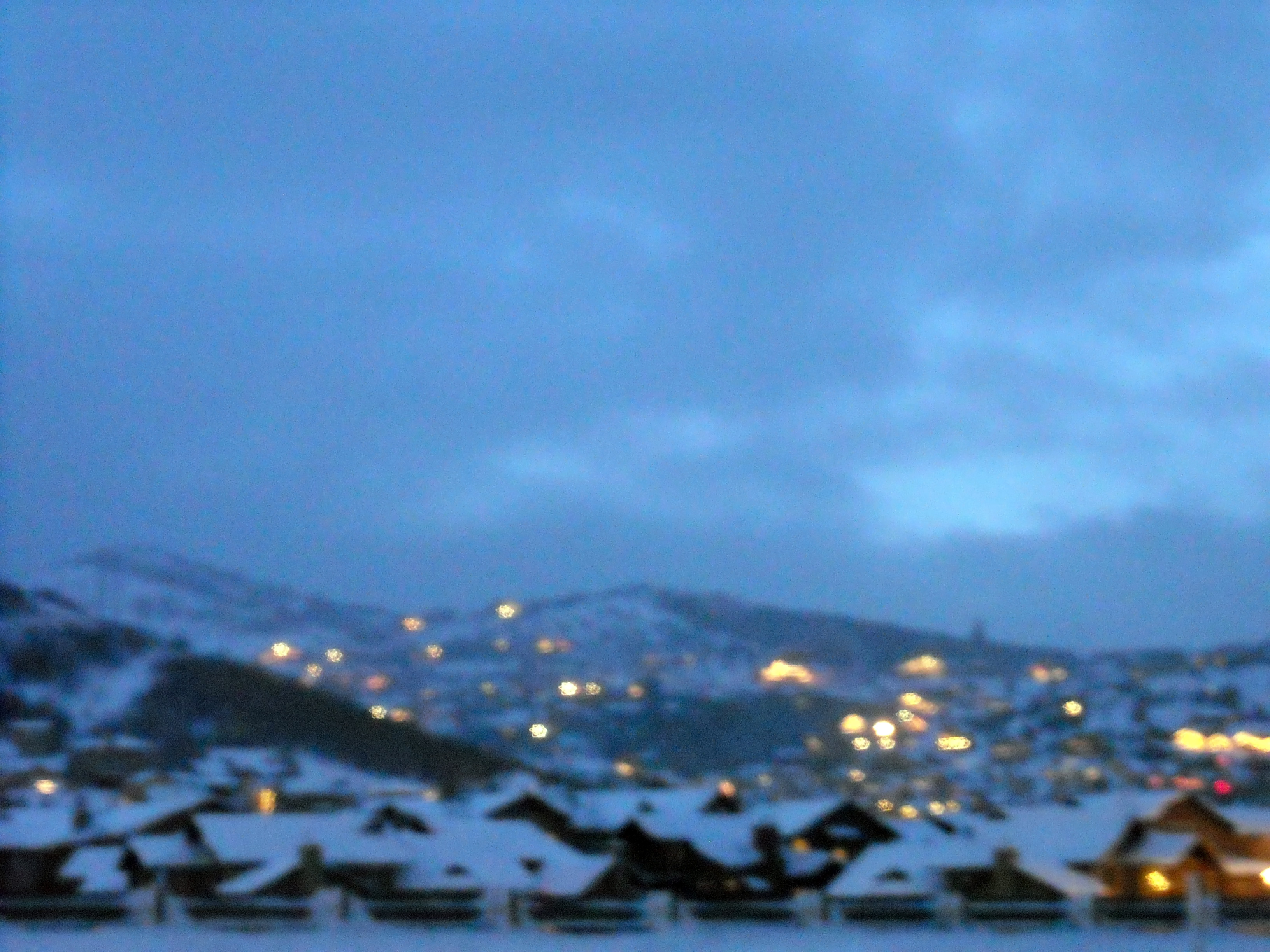 Jeremy Ranch, Utah at Christmas.